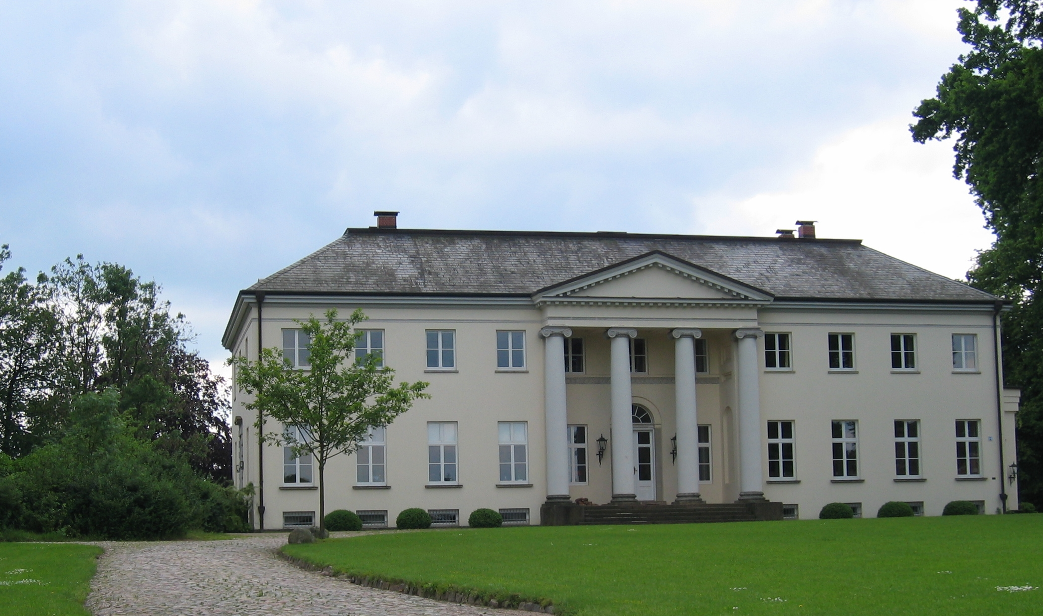 manor house in Schönfeld